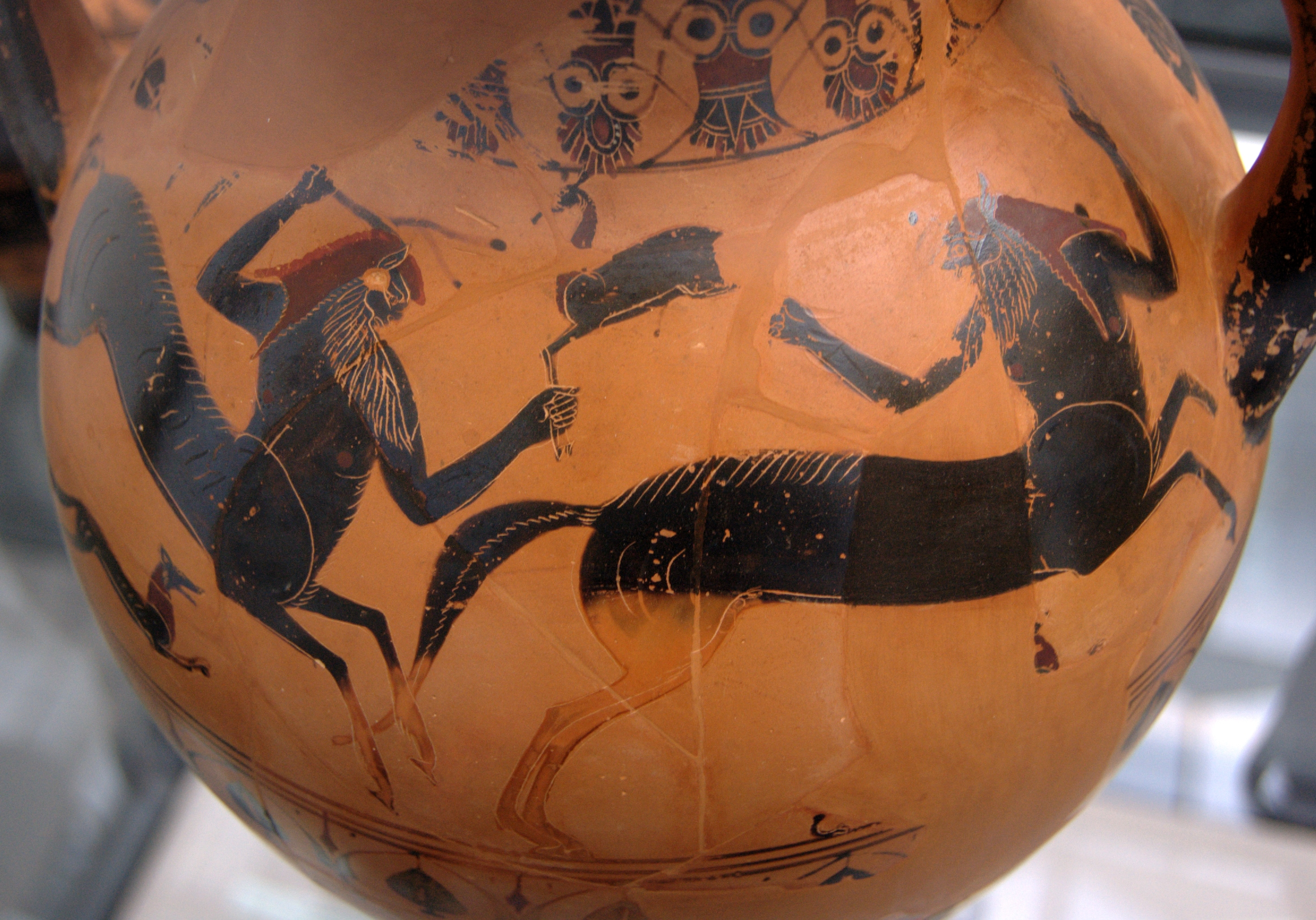 Hunting centaurs: they captured a roe, and the left one is holding an uprooted tree. A fox is hunting with them. Side B from a Greek black-figure amphora, 540–530 BC. Found in Italy.